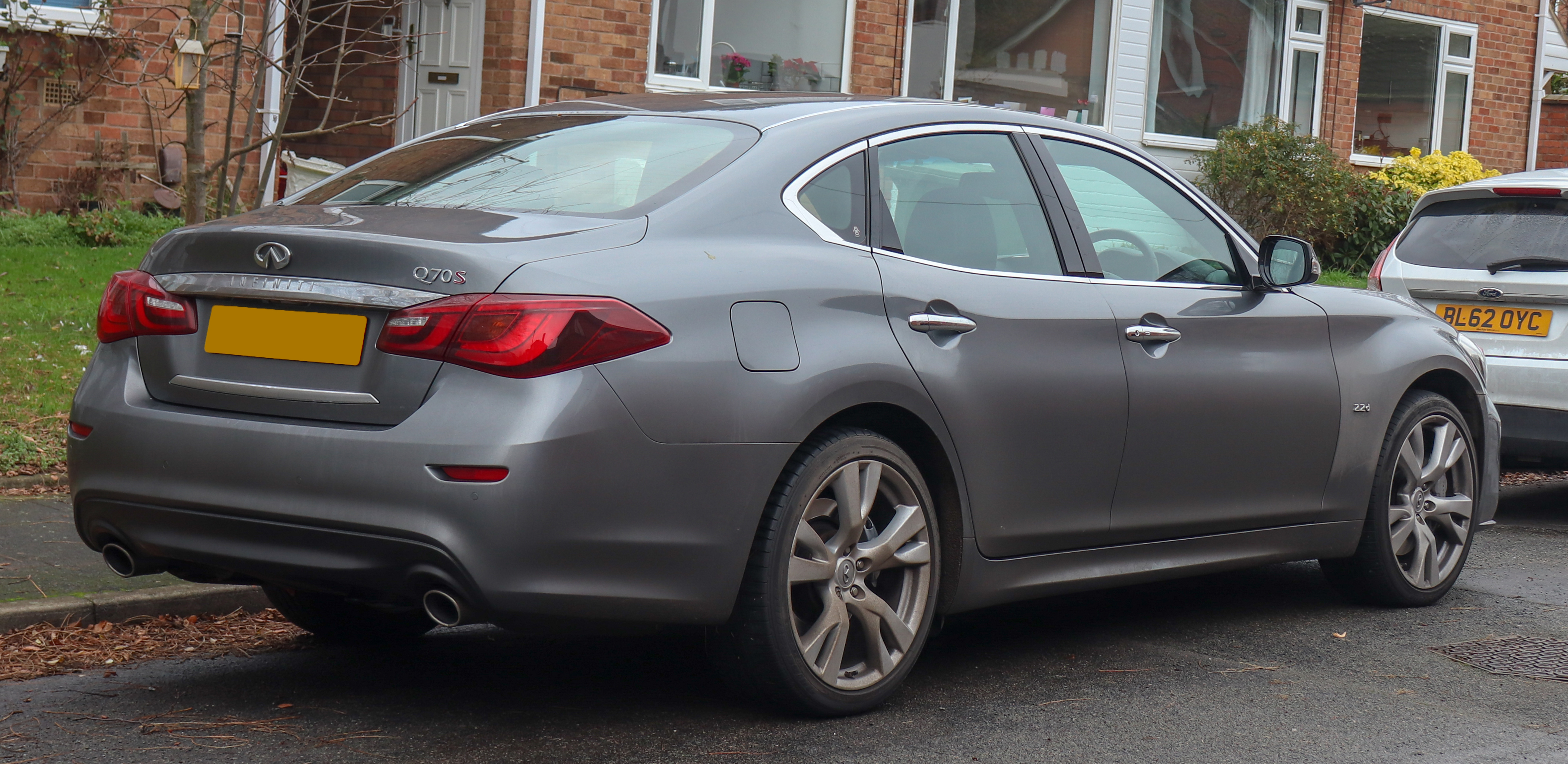 2015 Infiniti Q70 Sport Diesel Automatic 2.1 Rear Taken in Leamington Spa